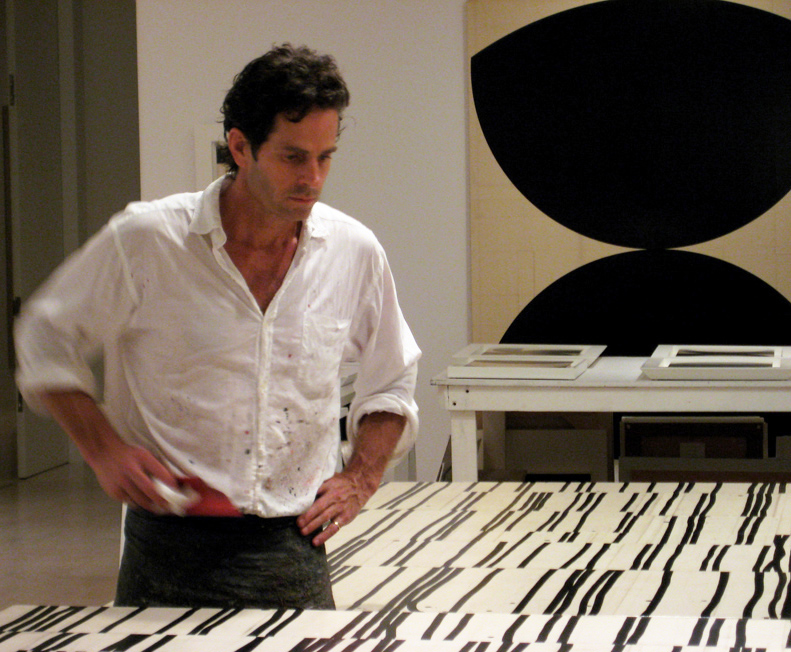 Robert Kelly in his New York studio while at work on a series called "Thickets."